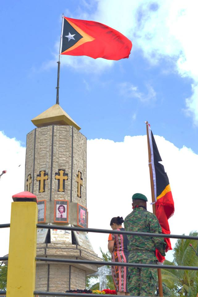 Monument dedicated to the victims of 1985 Tchaivatcha Tragedy, Souro Suco, Lautém District, East Timor. Inauguration 2015-7-21 On the photo: First lady Isabel da Costa Ferreira